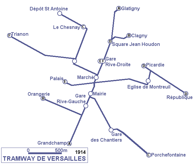 Map of the Tramway de Versailles in 1914, Versailles.